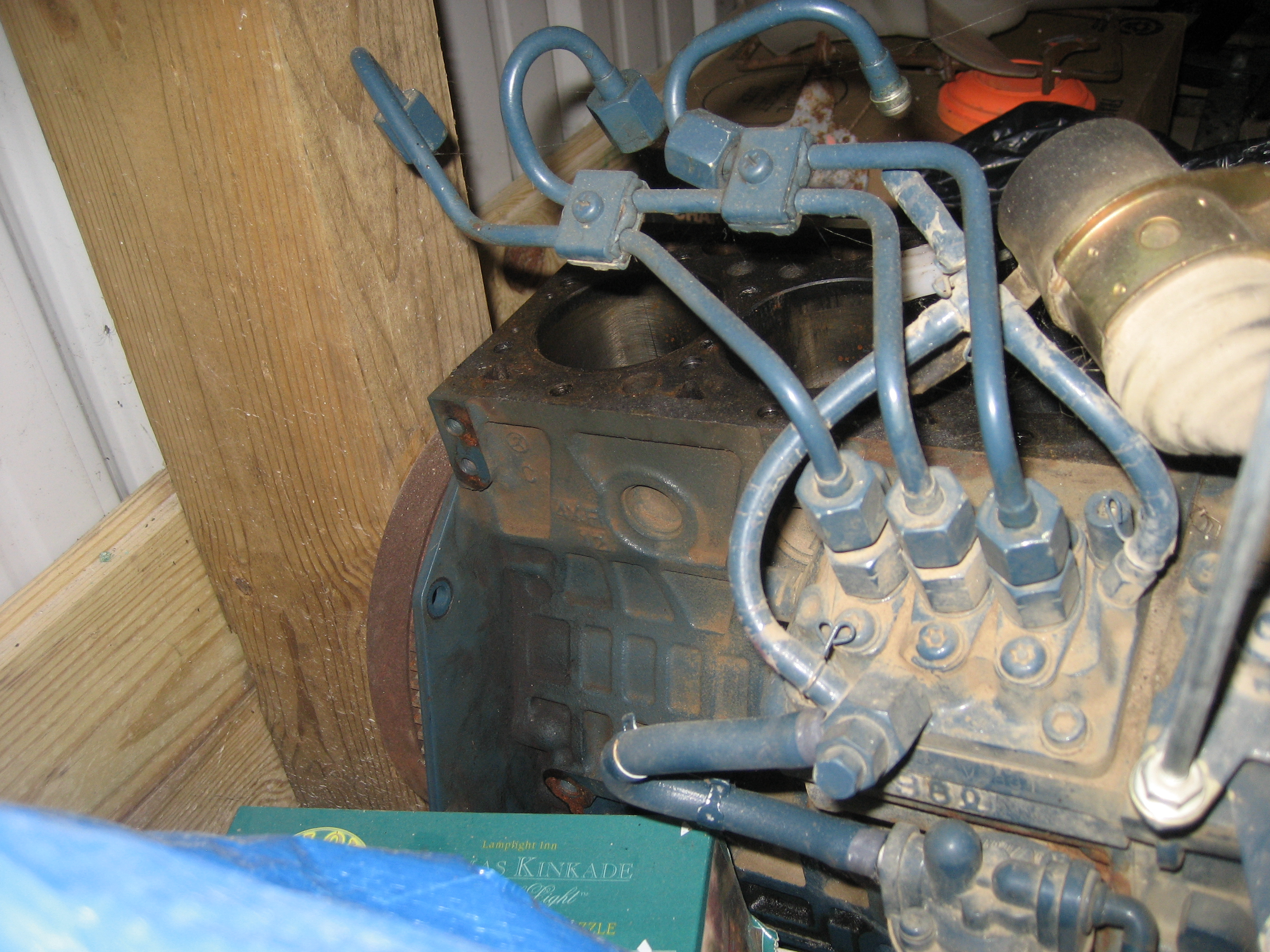 Injection pump of a 3 cylinder Kubota IDI diesel engine.